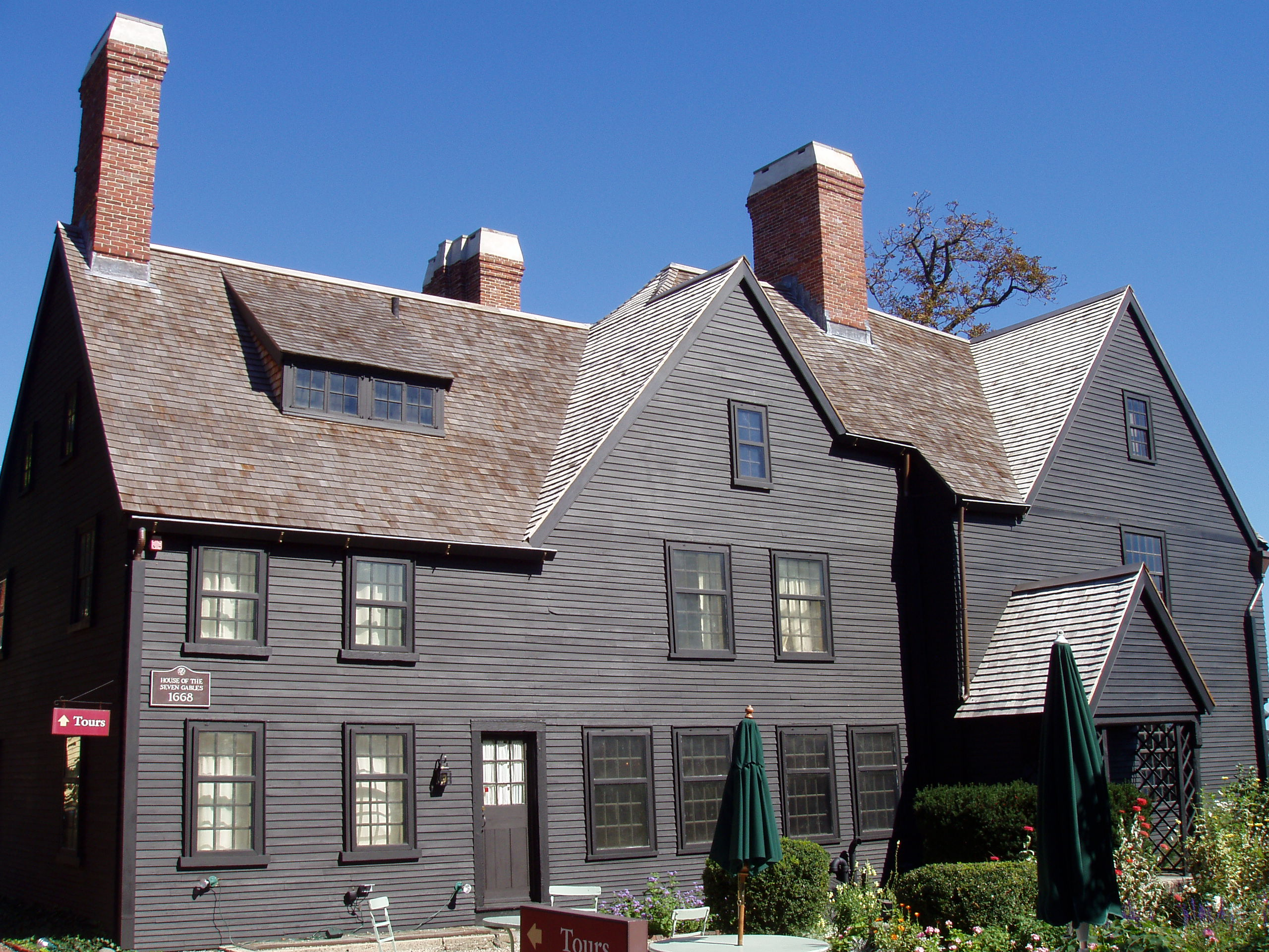 House of the Seven Gables - Salem, Massachusetts. View of the house side, showing oldest part of the house. Photograph taken by me, September 2005.